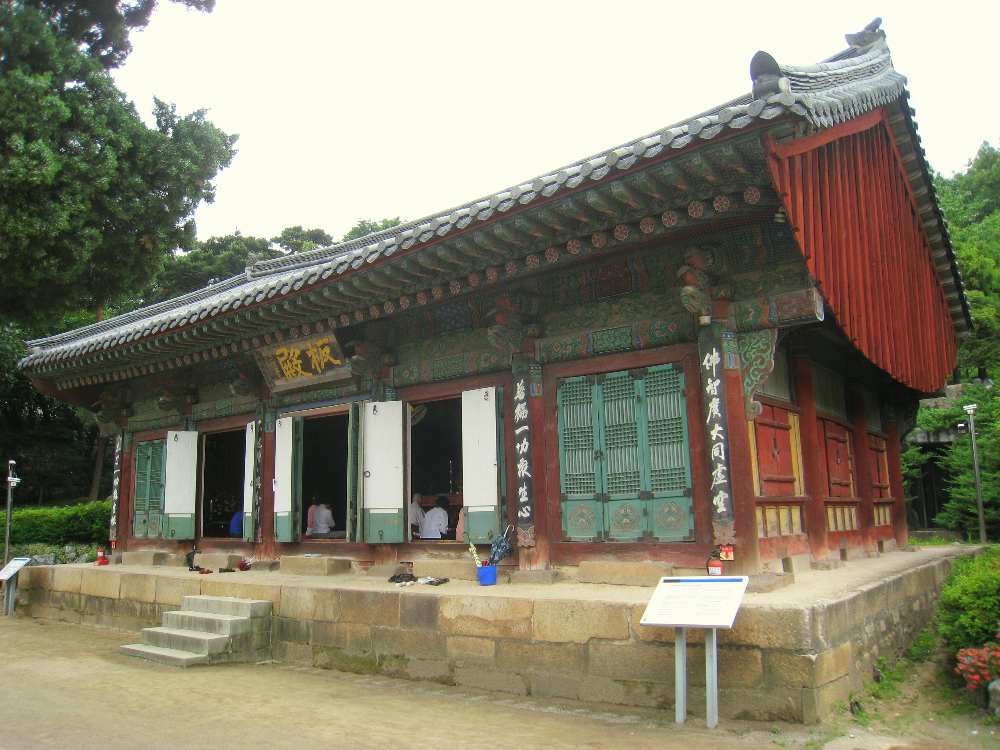 Bongeunsa - Seoul, Korea.